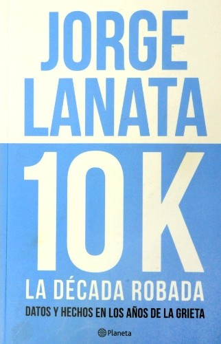 Book cover for "10K: La Década Robada" written by Argentine journalist Jorge Lanata. Published by Editorial Planeta.